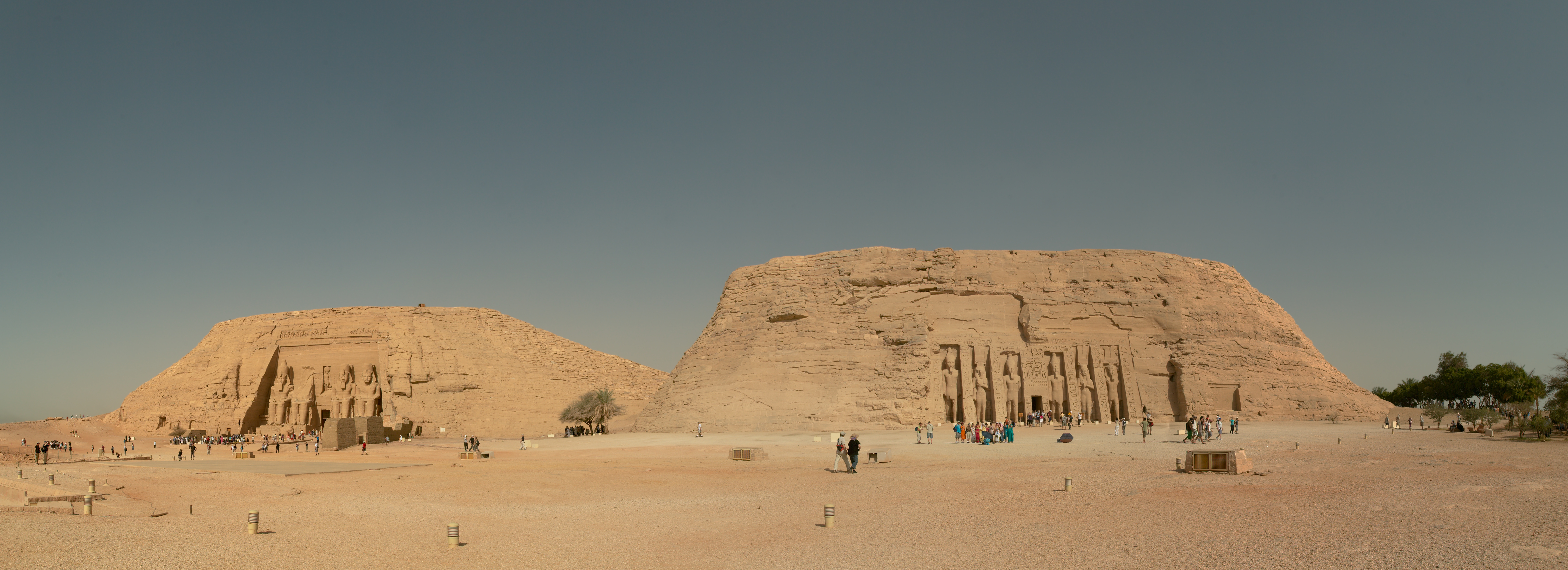 Great Temple of Abu Simbel View over the temples of Abu Simbel